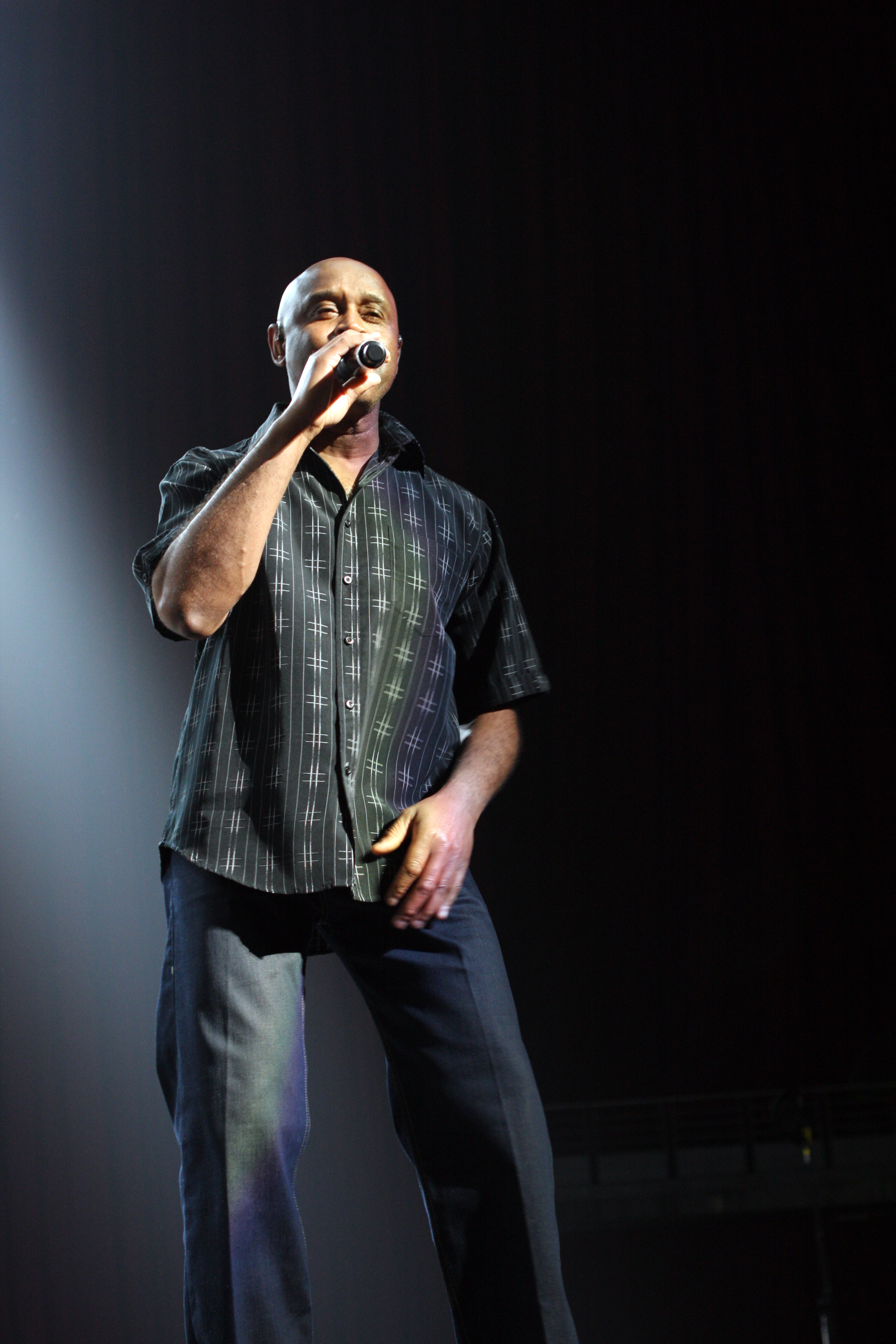 Santana Acer Arena